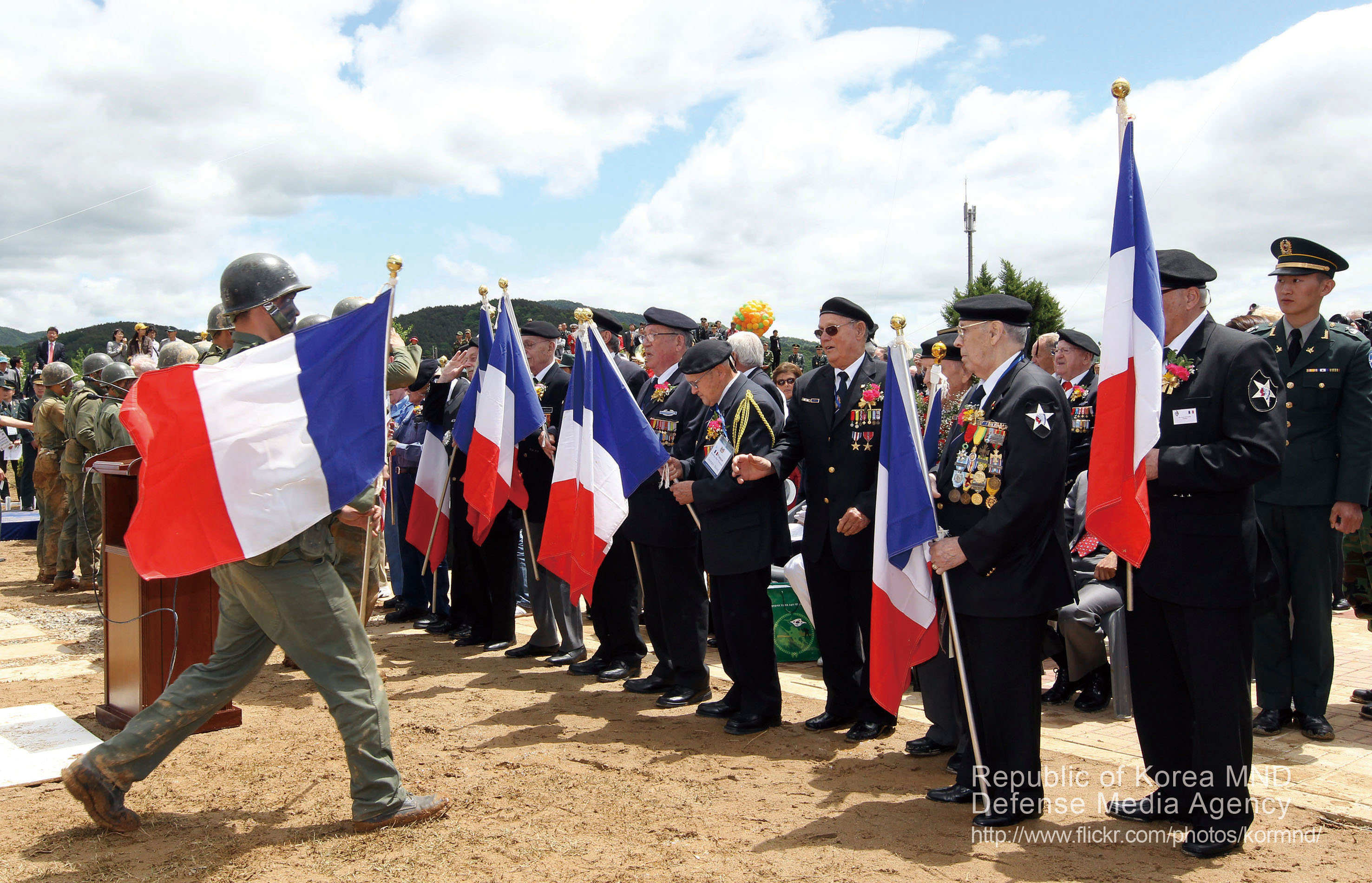 2010 국방화보 Rep. of Korea, Defense Photo Magazine 5월 26일 경기도 양평군 지평면 지평리 일원에서 열린 지평리 전투 기념행사에서 병사들이 프랑스 국기를 프랑스 참전용사에게 전달하고 있다. ROK soldiers are delivering a French national flag to a French veteran at the victory celebration event for the battle of Jipyeong-ri, May 26.